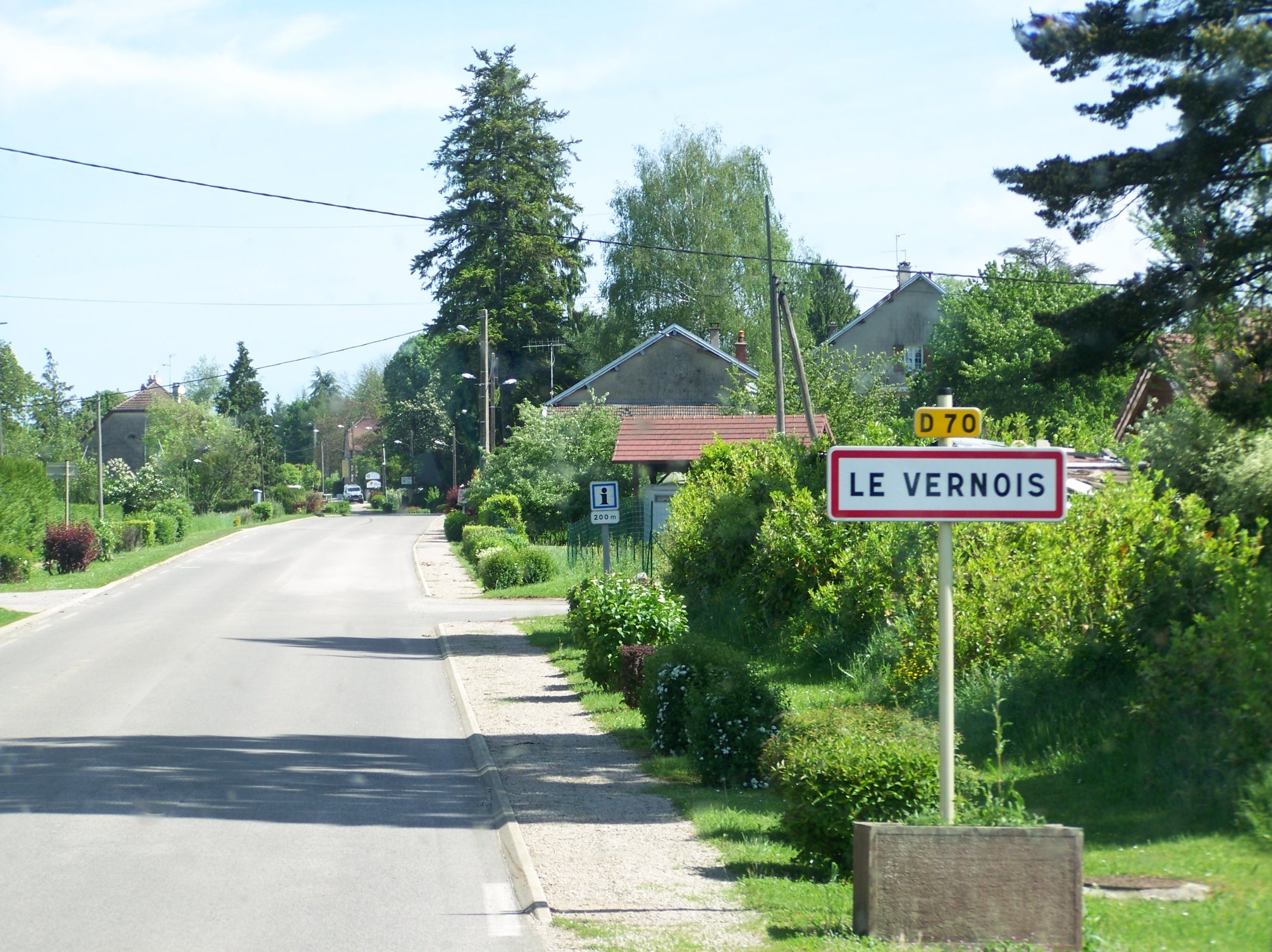 Sign welcoming to French village of Le Vernois in Jura.